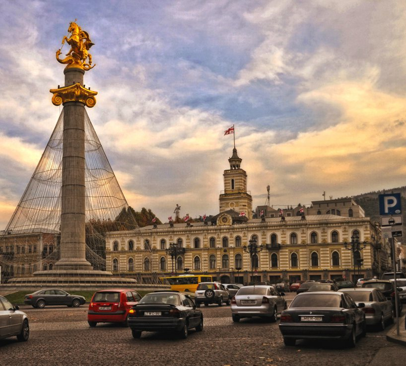 Tbilisi: Levan Nioradze თბილისი: ლევან ნიორაძე